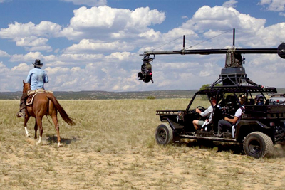 Large payload to carry the heaviest of jib arms and techno cranes, the TOMCAR electric vehicles (EV) have incredible stability which allows you to get smooth shots over rough terrains.